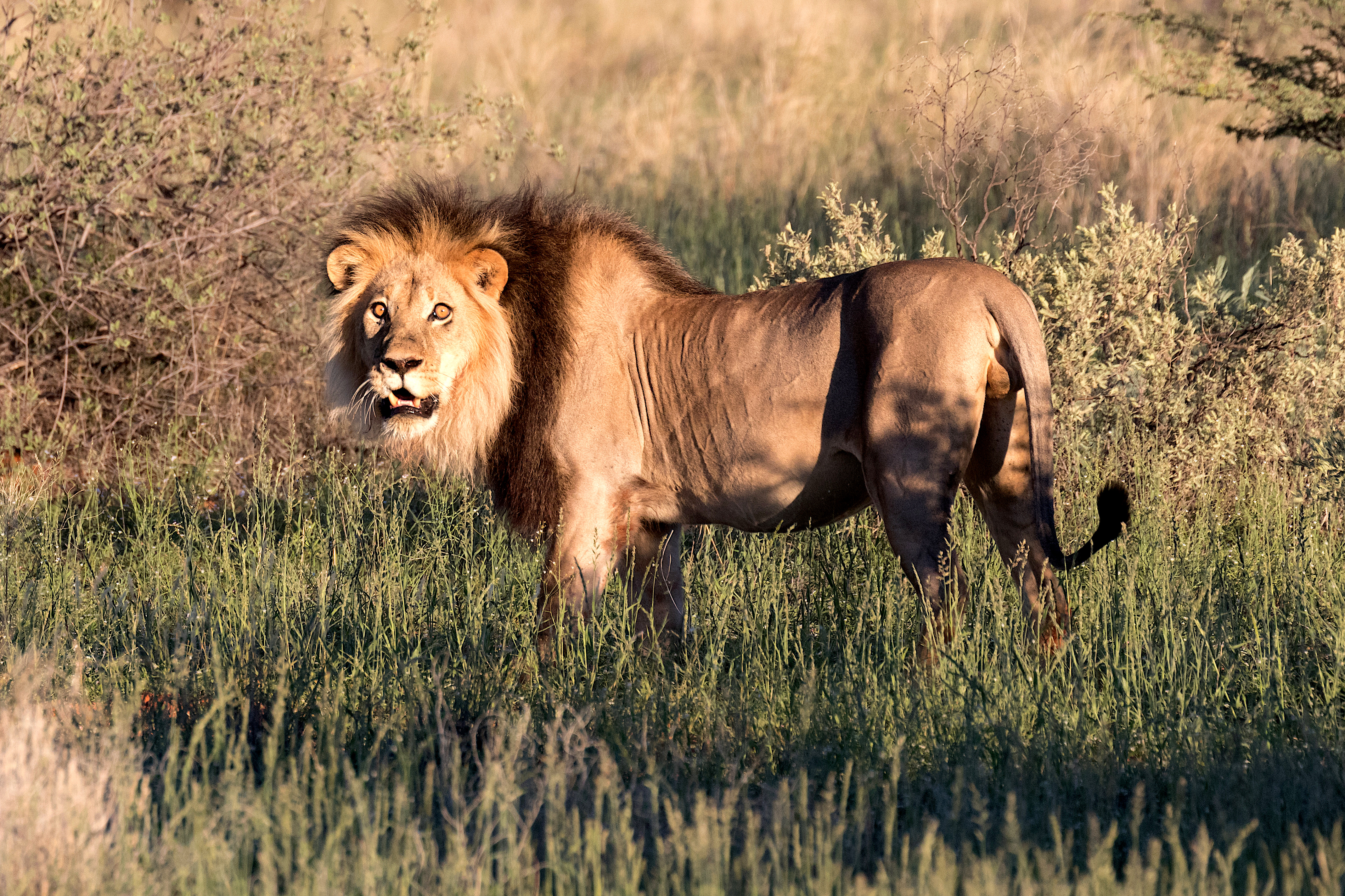 Buitepos Safari Lodge bei Marly & Frank - Löwe Über den Grenzzaun von Namibia nach Südafrika fotografiert